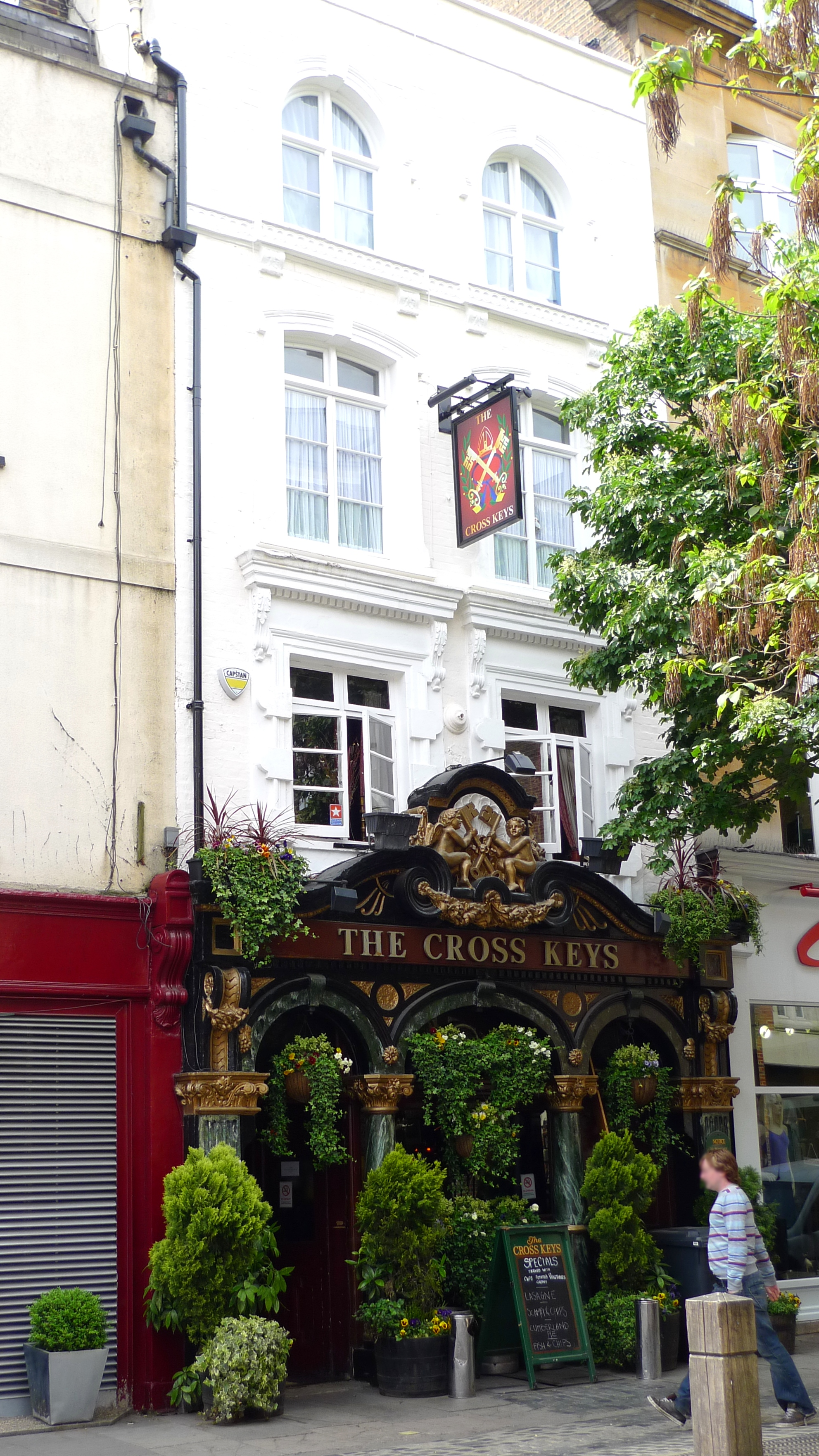 Immense amounts of foliage outside this pub, which serves Brodie's beers. Address: 31 Endell Street. Owner: Enterprise Inns/Brodie's (website). Links: Randomness Guide to London Fancyapint Pubs Galore Beer in the Evening Qype Dead Pubs (history)